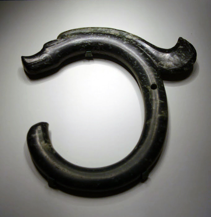 Neolithic jade dragon, H. 26 cm, Hongshan Culture, Inner Mongolia, excavated in Sanxingtala, Ju Ud (act. Chifeng), 1973. National Museum of China, Beijing